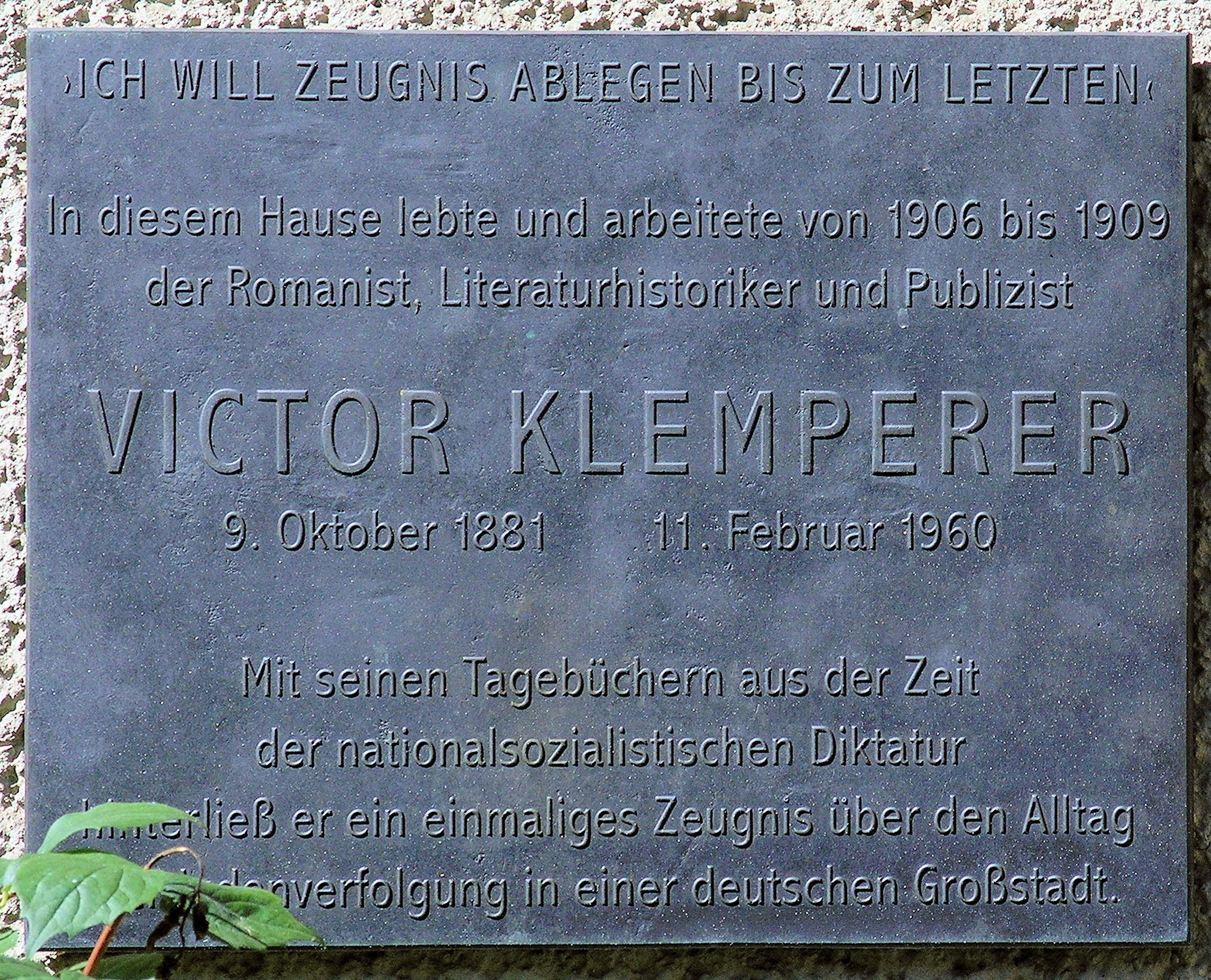 Memorial plaque, Victor Klemperer, Weimarische Straße 6a, Berlin-Wilmersdorf, Germany